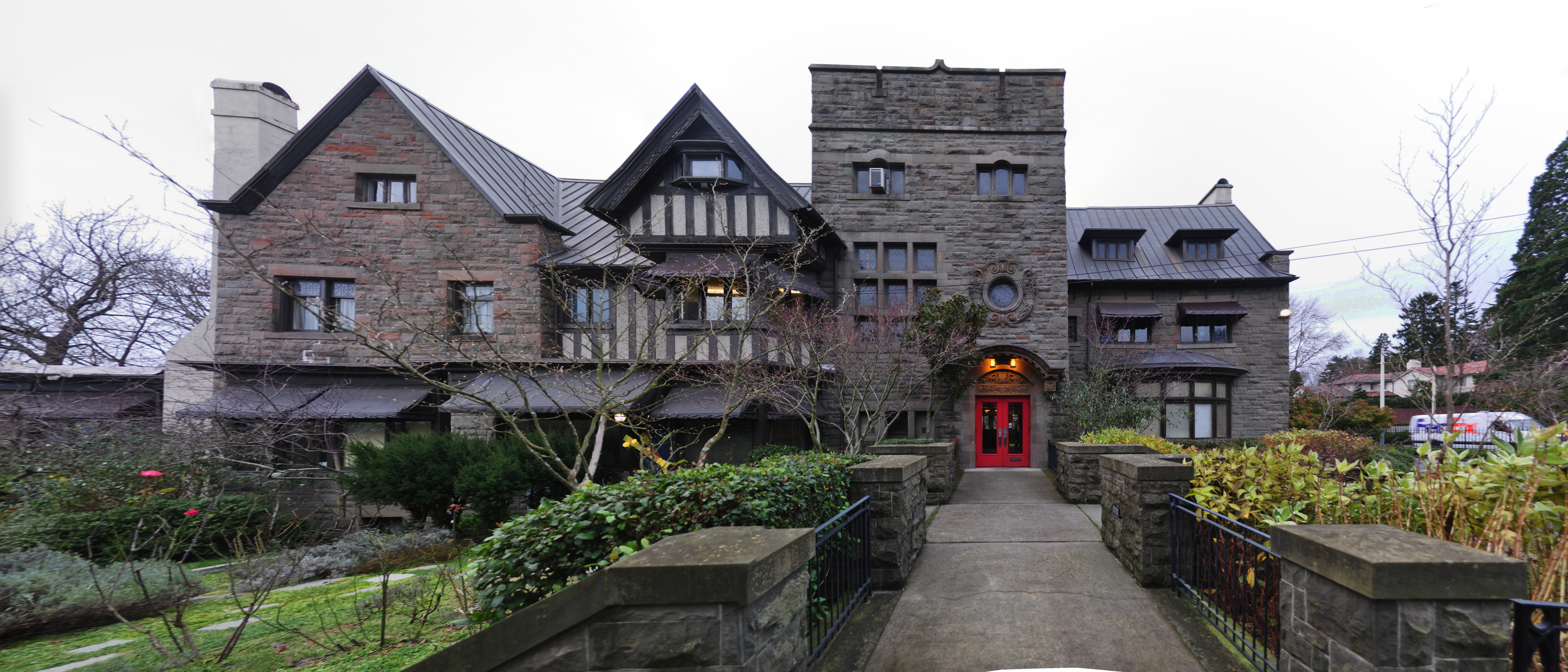 Panoramic view of the south façade, 1551 10th Avenue E., Capitol Hill, Seattle, Washington. The Eliza Ferry Leary House (a.k.a. Diocesan House), headquarters of the Episcopal Diocese of Olympia, in the same complex of buildings as St. Mark's Episcopal Cathedral. Listed on the National Register of Historic Places, ID #72001274. 2-1/2 story mansion built 1904-07, from designs by Alfred Bodley. Eliza Ferry Leary lived here until her death in 1935. The Red Cross used the house as its headquarters until 1948, when it was purchased by the Episcopal Diocese of Olympia. Summary for 1551 10th AVE / Parcel ID 2025049121, Seattle Department of Neighborhoods. This image was created with Hugin.